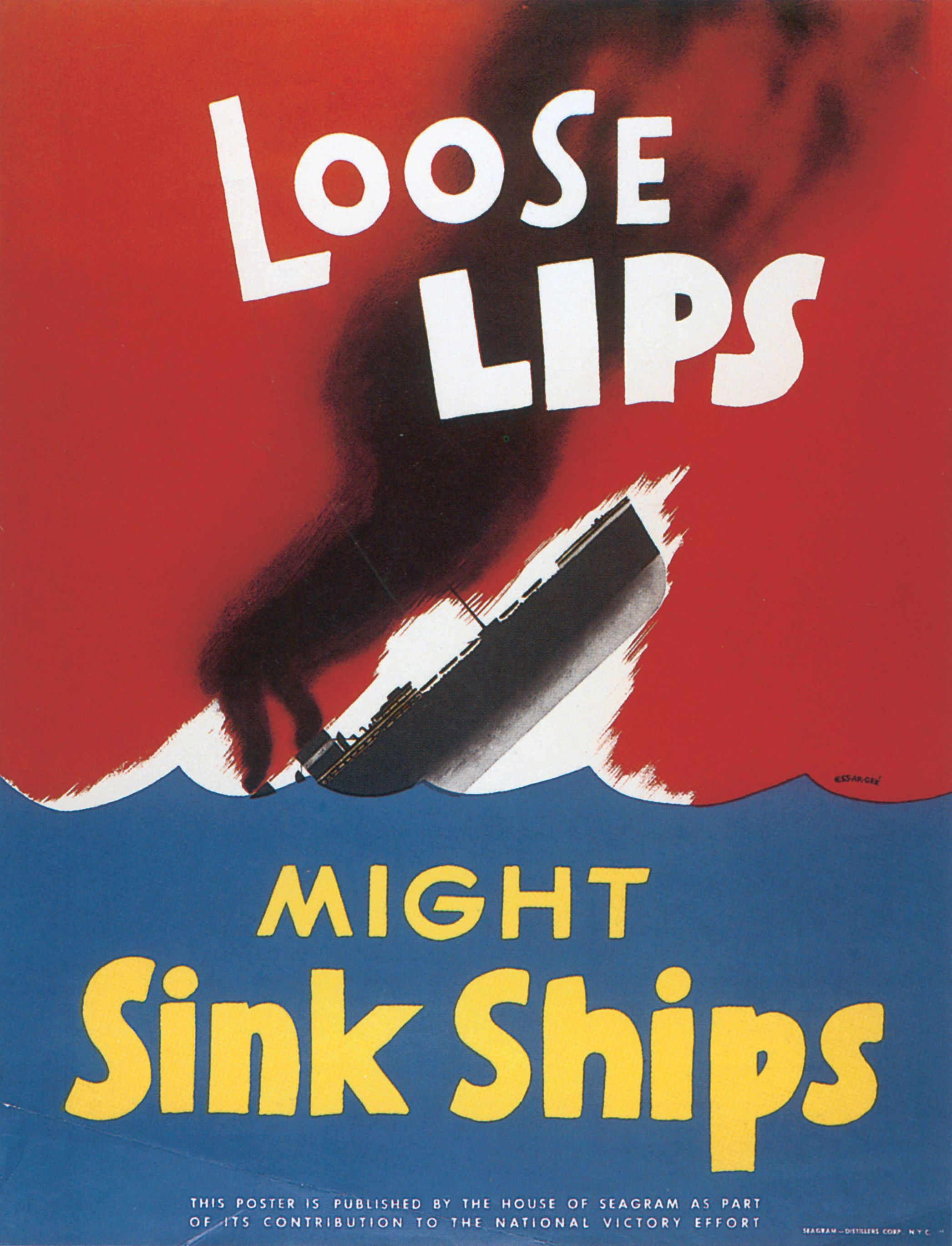 Loose lips might sink ships -- a poster advocating operational security.